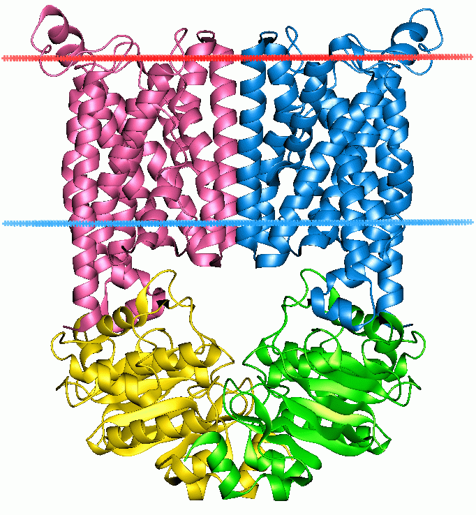 Structure of the Escherichia coli BtuCD protein, an ABC transporter that mediates vitamin B12 uptake. Protein image from OPM database